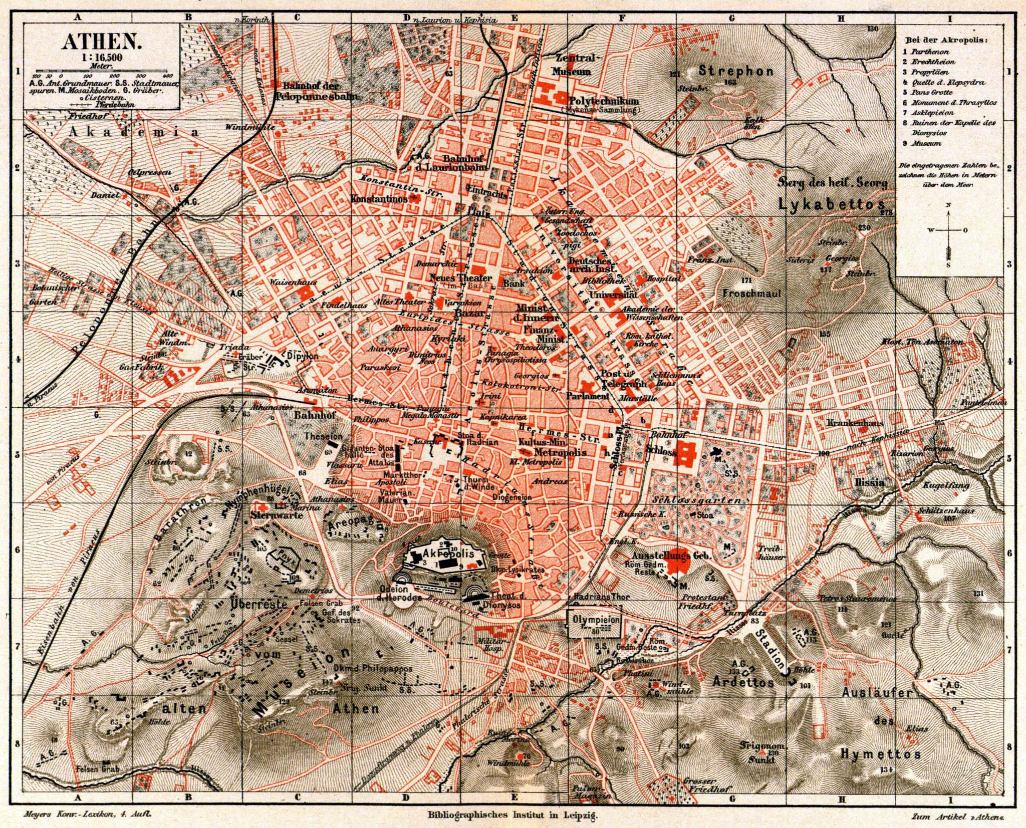 Meyers Konversationslexikon — Vol. 1 — map to page 999 — Athens